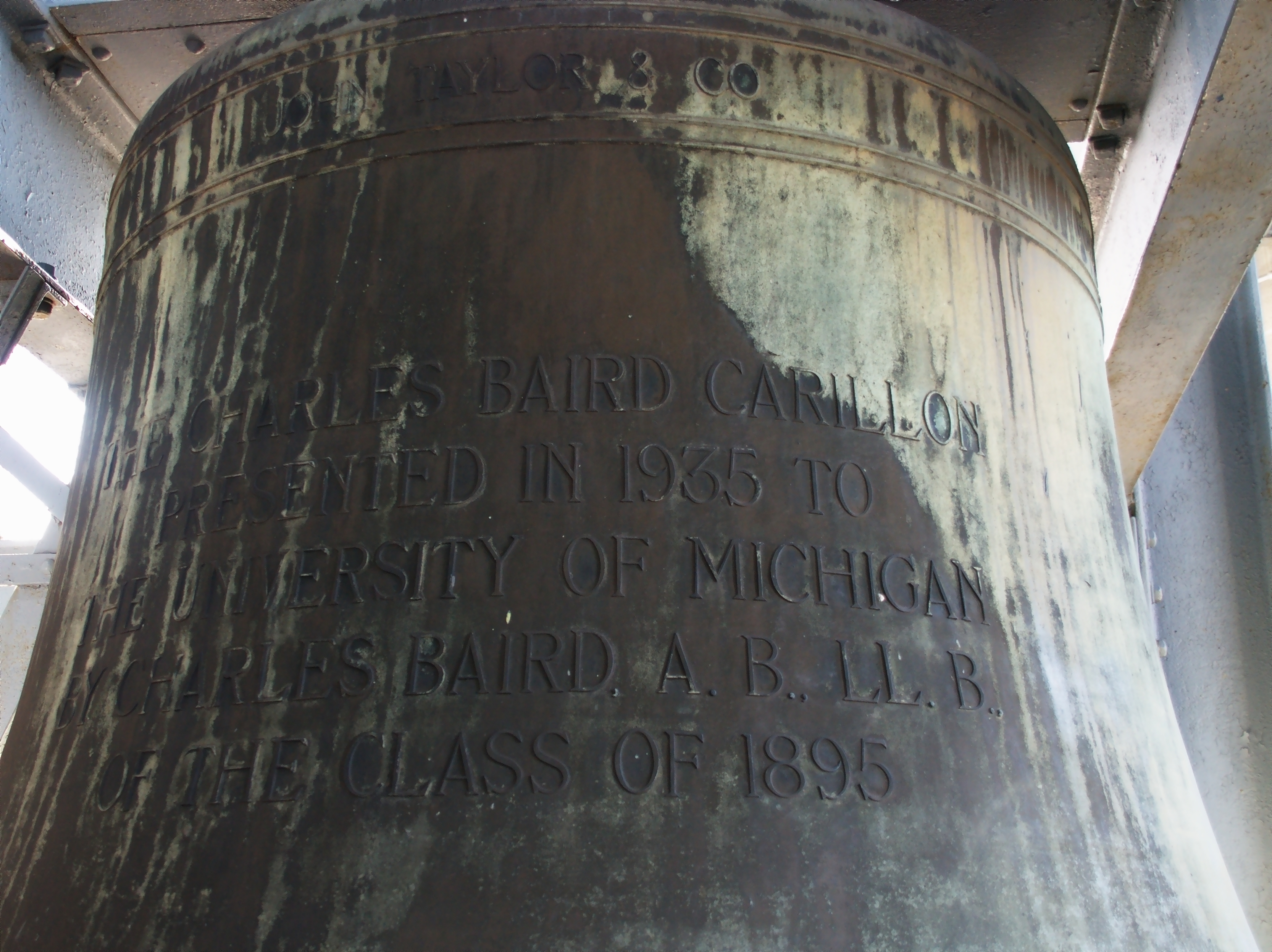 John Taylor & Co The Charles Baird Carillon presented in 1935 to The University of Michigan by Charles Baird, A.B. LL.B. of the class of 1895